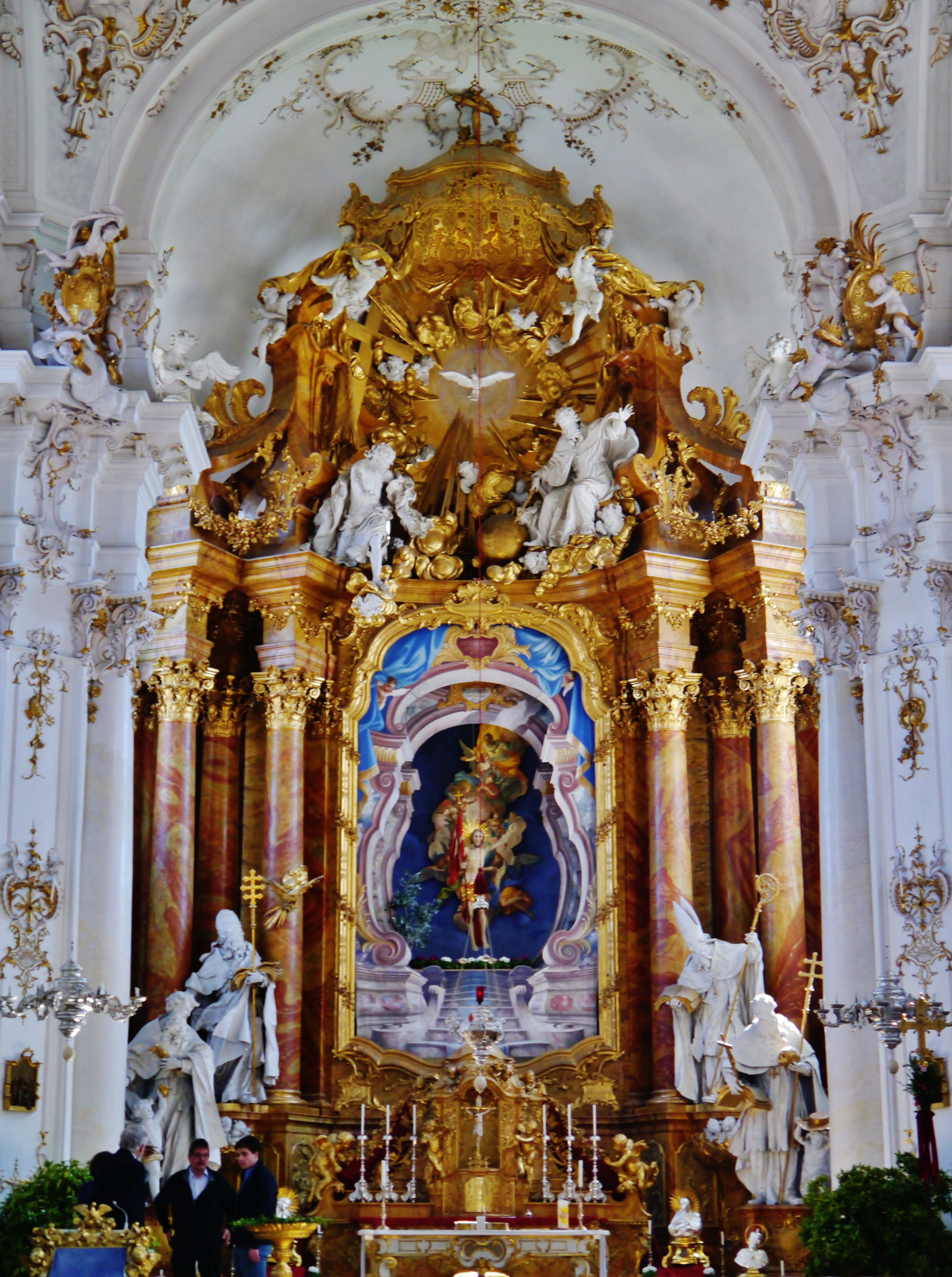 High Altar of the Minster St. Mary, Dießen, Bavaria, Germany